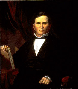 This image is of an oil portrait of Indiana Governor David Wallace (1799 - 1846) painted by artist Jacob Cox (1810 - 1892). The original digital image may be viewed at [1]